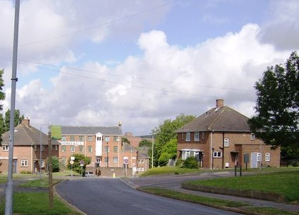 Pan estate, near to Newport, Isle of Wight, Great Britain. The main road through the estate suburb of Newport called Pan.